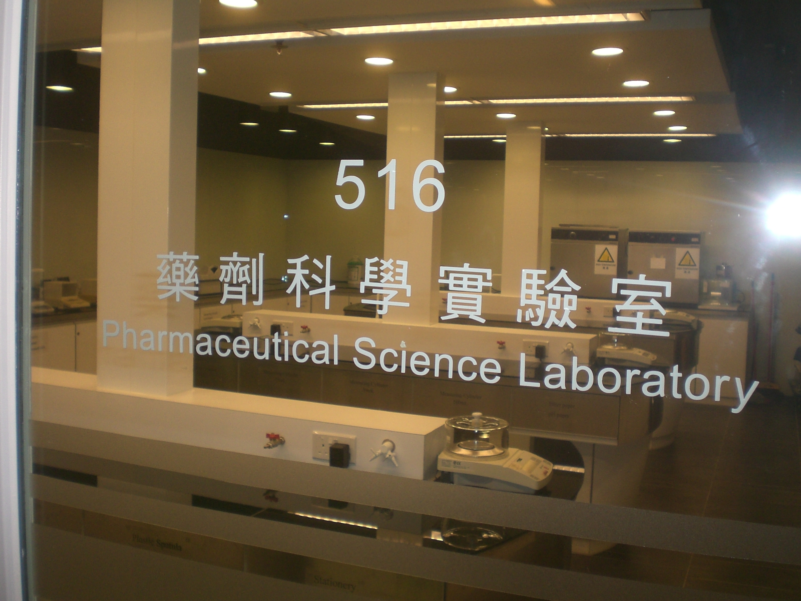 柴灣 香港專業教育學院柴灣分校 藥劑科學實驗室 516室